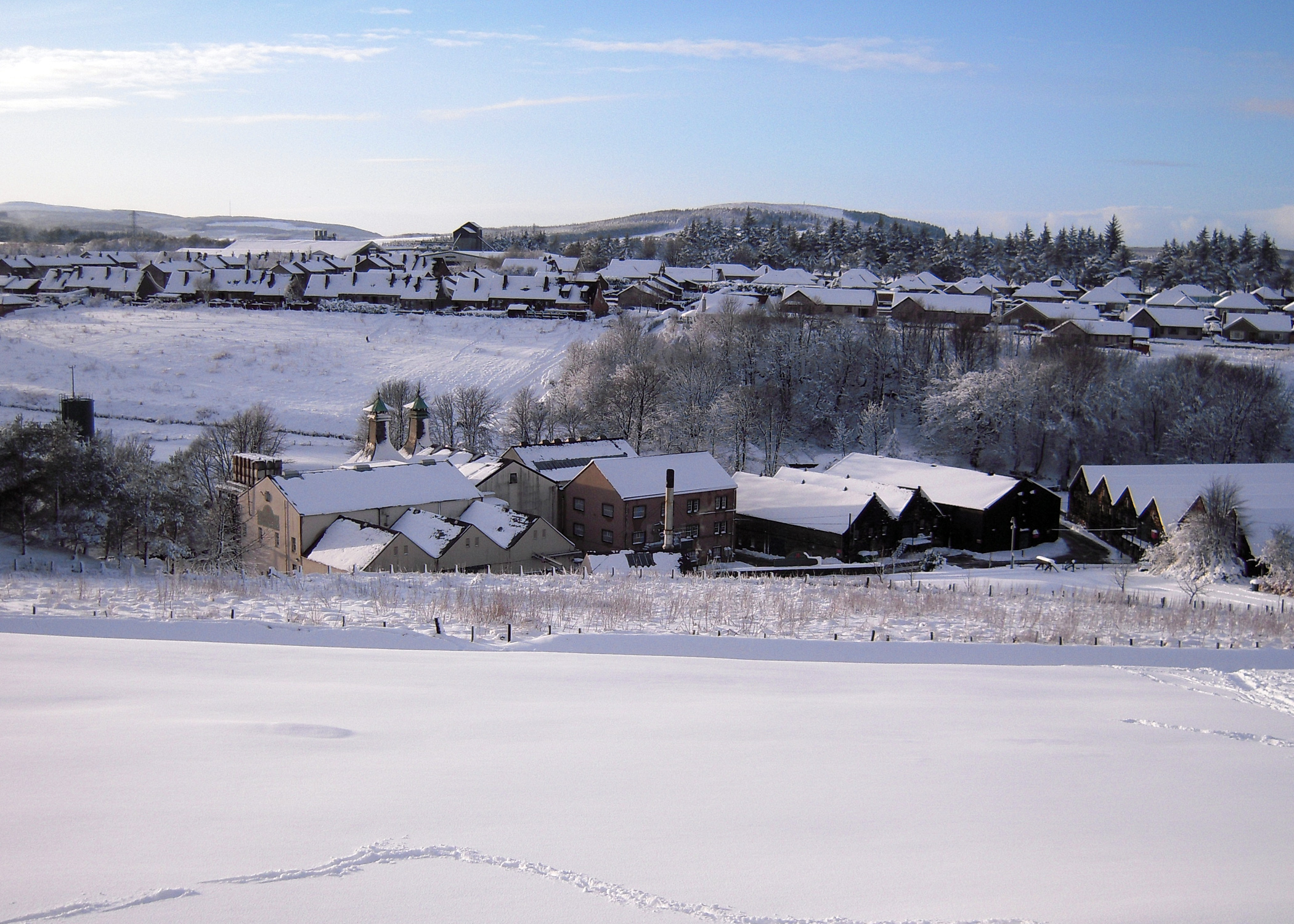 Late winter's view of Glen Keith distillery.